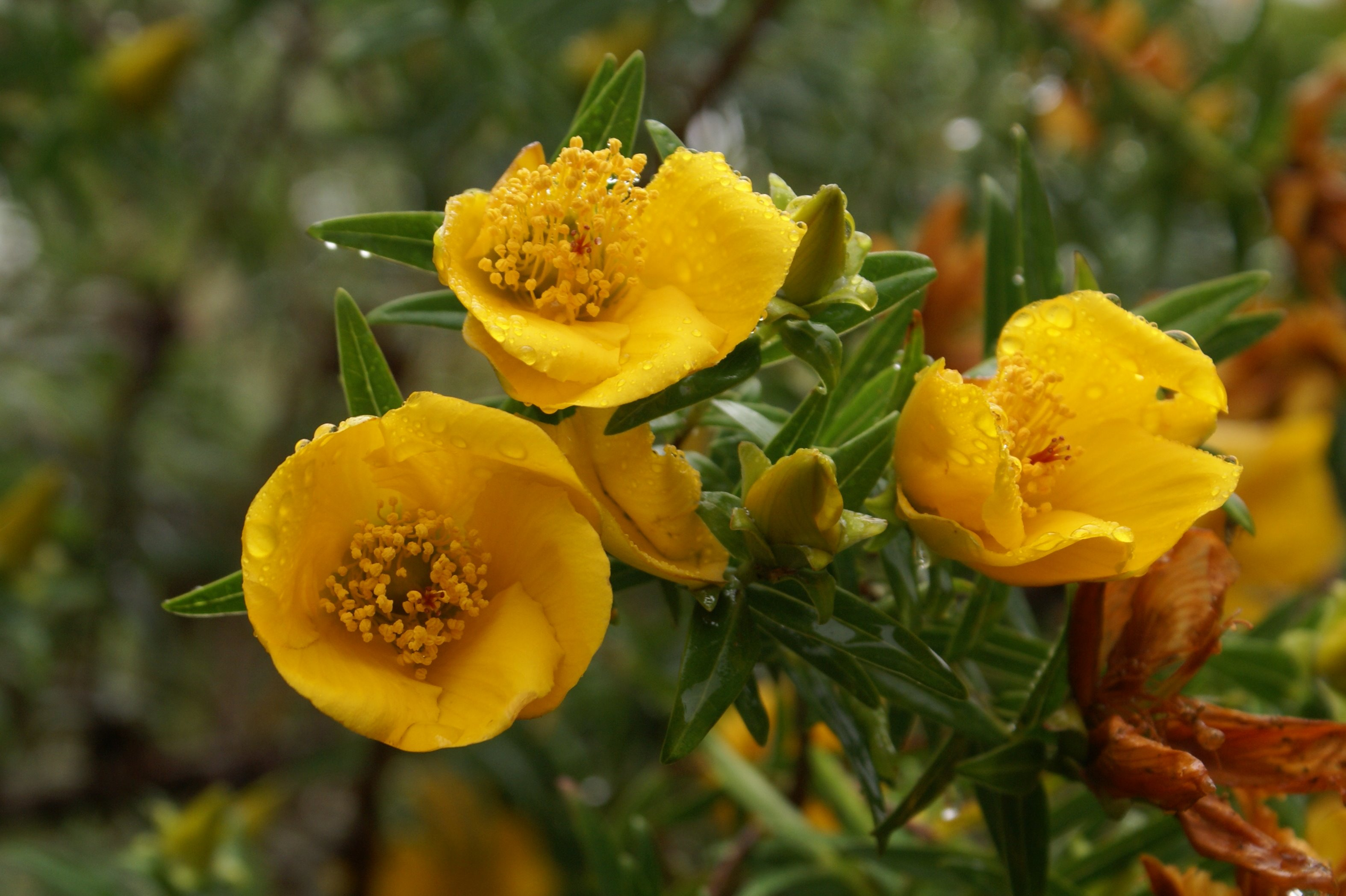 Hypericum lanceolatum ssp lanceolatum flowers